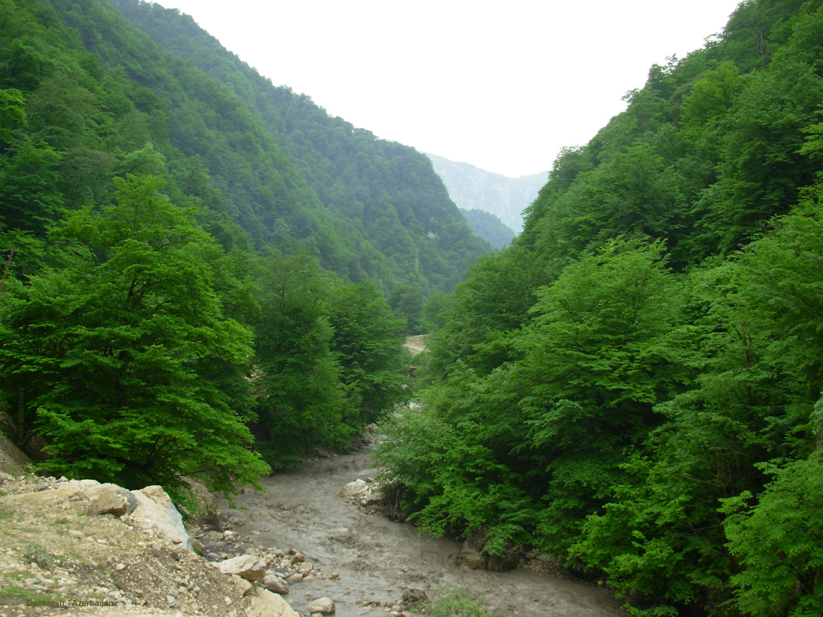 Mountain river in Gechresh (Guba, Azerbaijan)